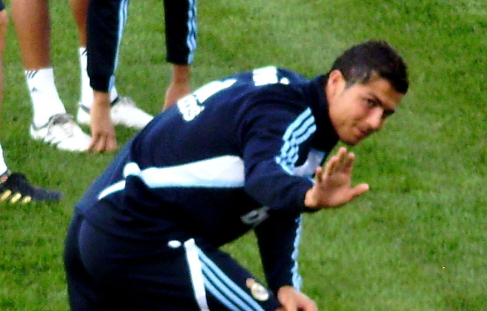 Real Madrid at Toronto, Ronaldo's Hi